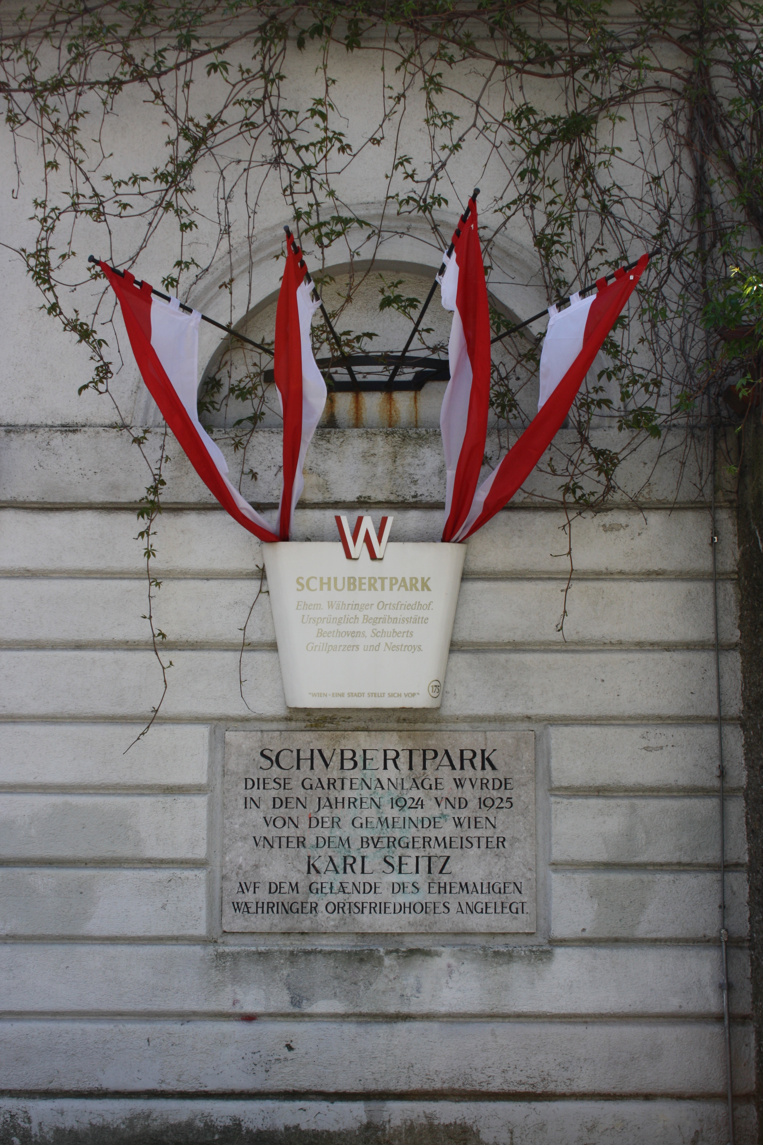 Schubertpark, 18th district of Vienna.